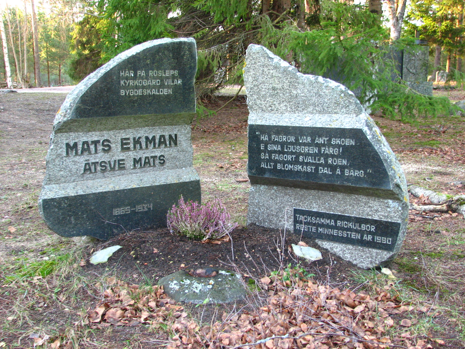 Mats Ekman's memorial, Rooslepa cemetery